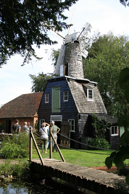 Photograph of restored wind saw mill at Buckland, Surrey